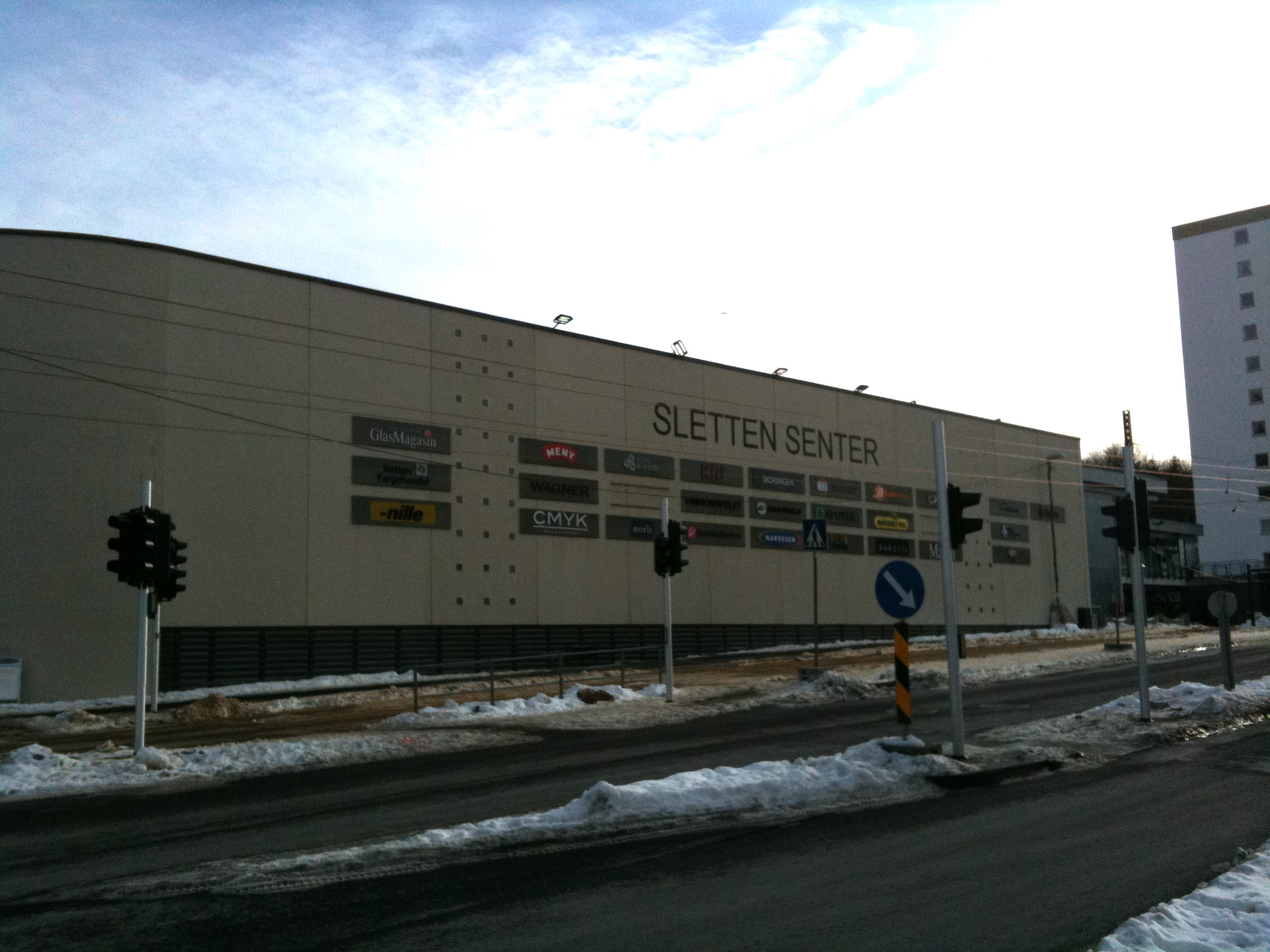 Sletten senter in Bergen, Norway